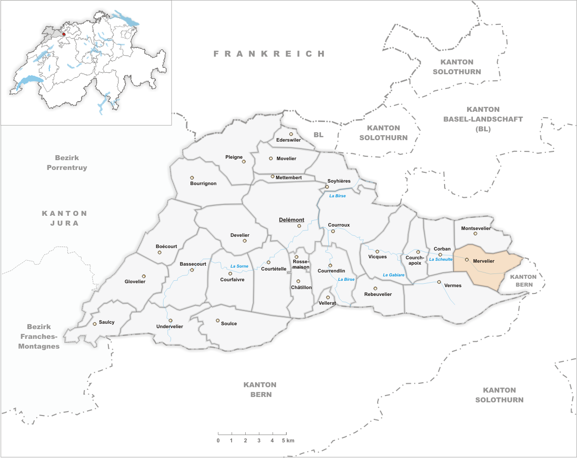 Municipality Mervelier